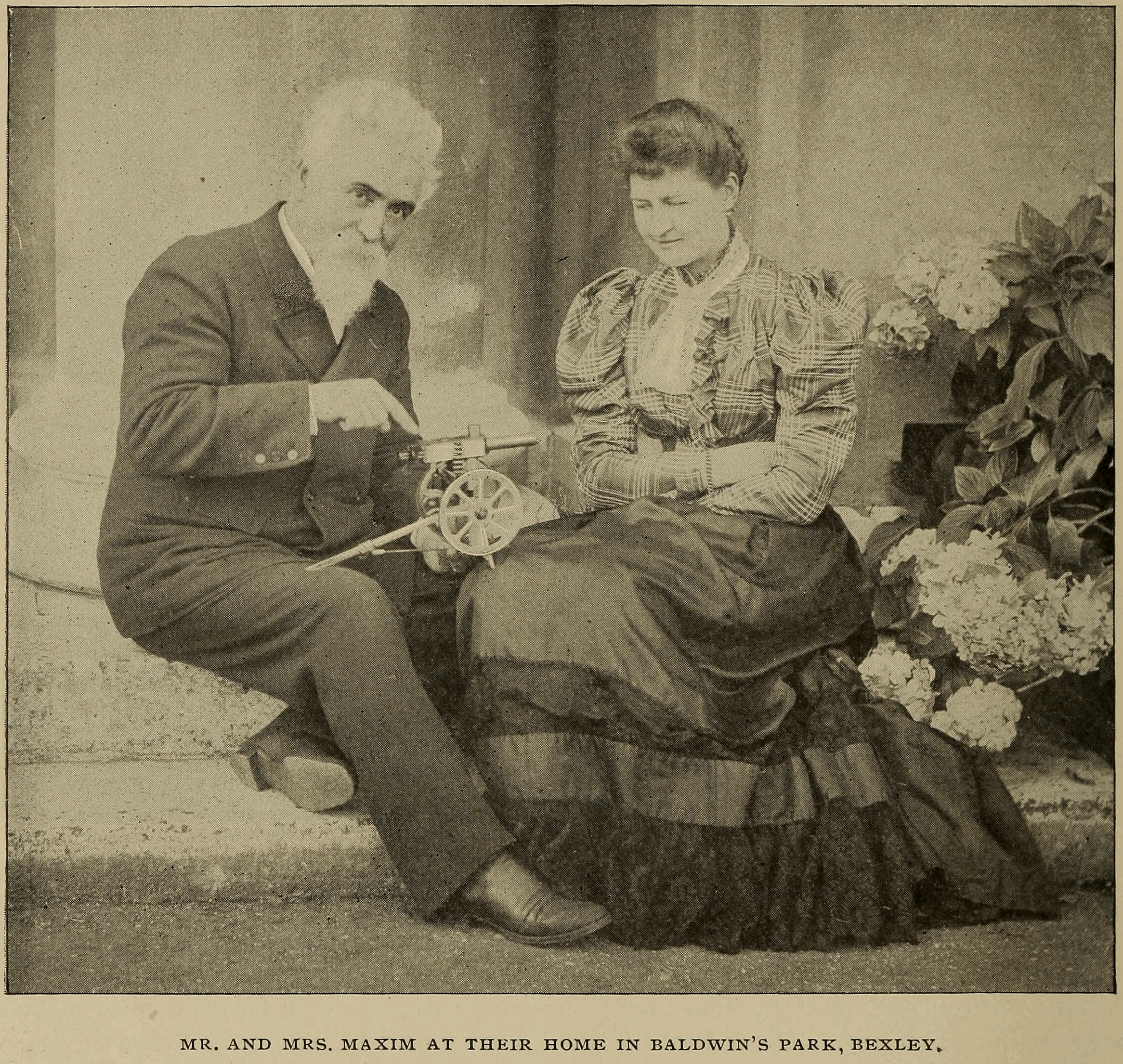 Cassier's Magazine of April 1895 had an article on page 435-456, written by J. Bucknall Smith and titled Some Features of the Inventive Career of Hiram S. Maxim. It was accompanied by a number of illustrations, including this photo of Sarah (born Sarah Haynes) and Hiram Maxim, on page 454.